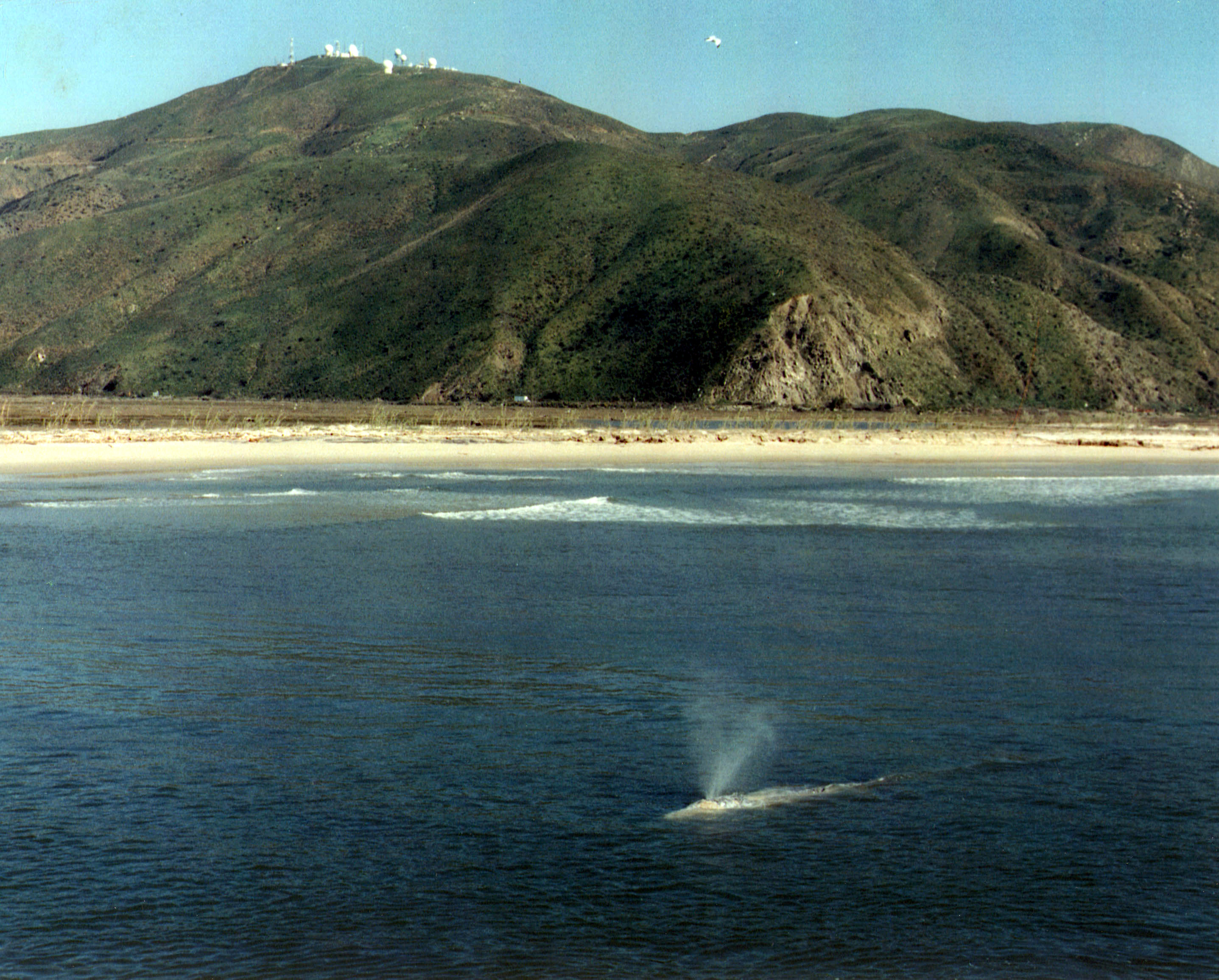 A whale, with Laguna Peak of the Santa Monica Mountains in background — Ventura County, California.